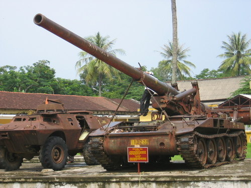 Former ARVN M-107 howitzer and V-100 armoured car at the military museum in Hue, Vietnam